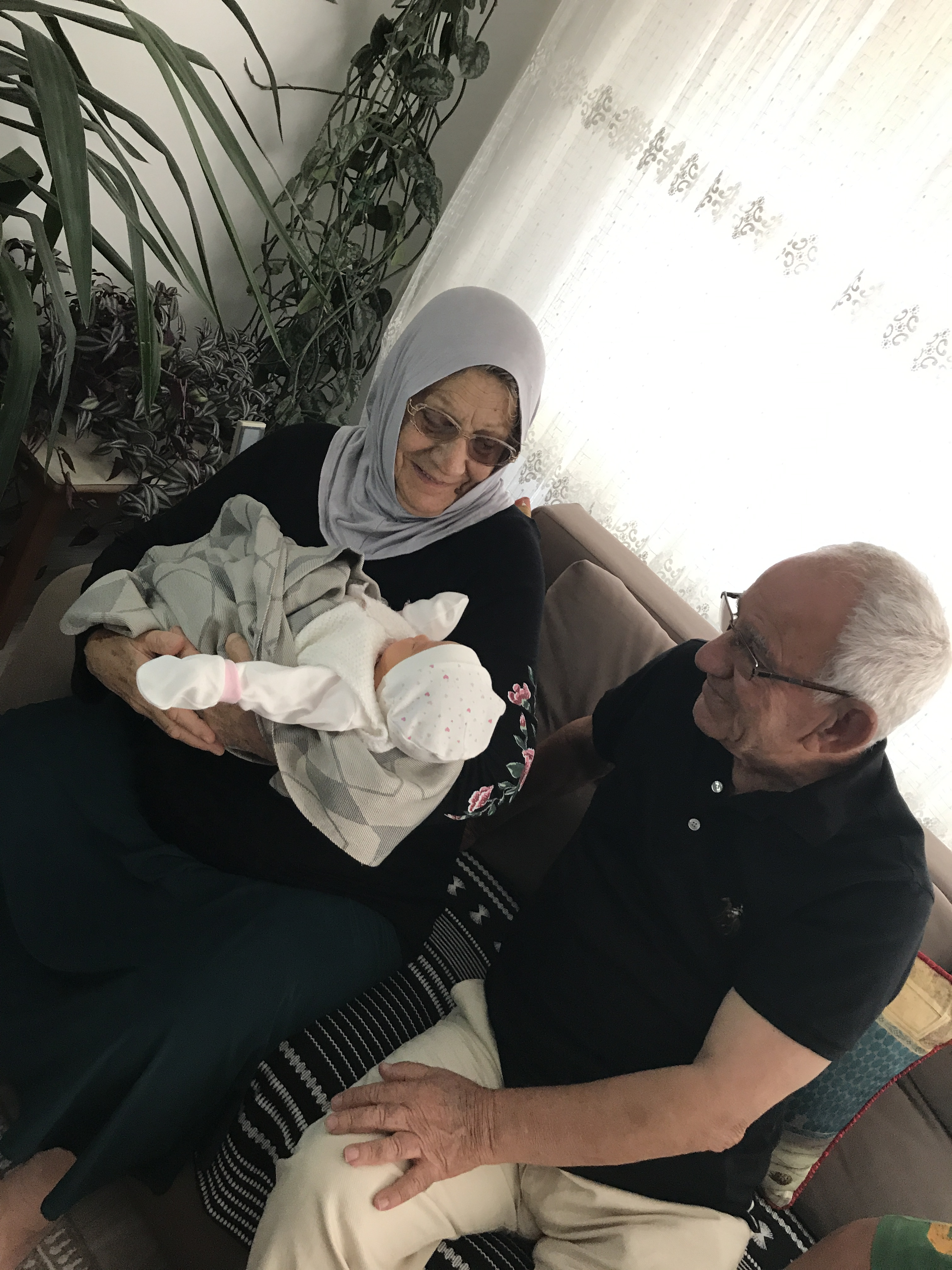 Perfect love sometimes doesn’t come until the first grandchild -Welsh proverb. All what I can see in this photo is love and happiness of two old couples holding there granddaughter for the first time they are so blessed and I can understand that because a grandchild fi a space in your heart that you never knew was empty. And that’s wonderful because grandchildren are the dots that connects the lines from generation to generation This photo has been taken in the country: Iraq